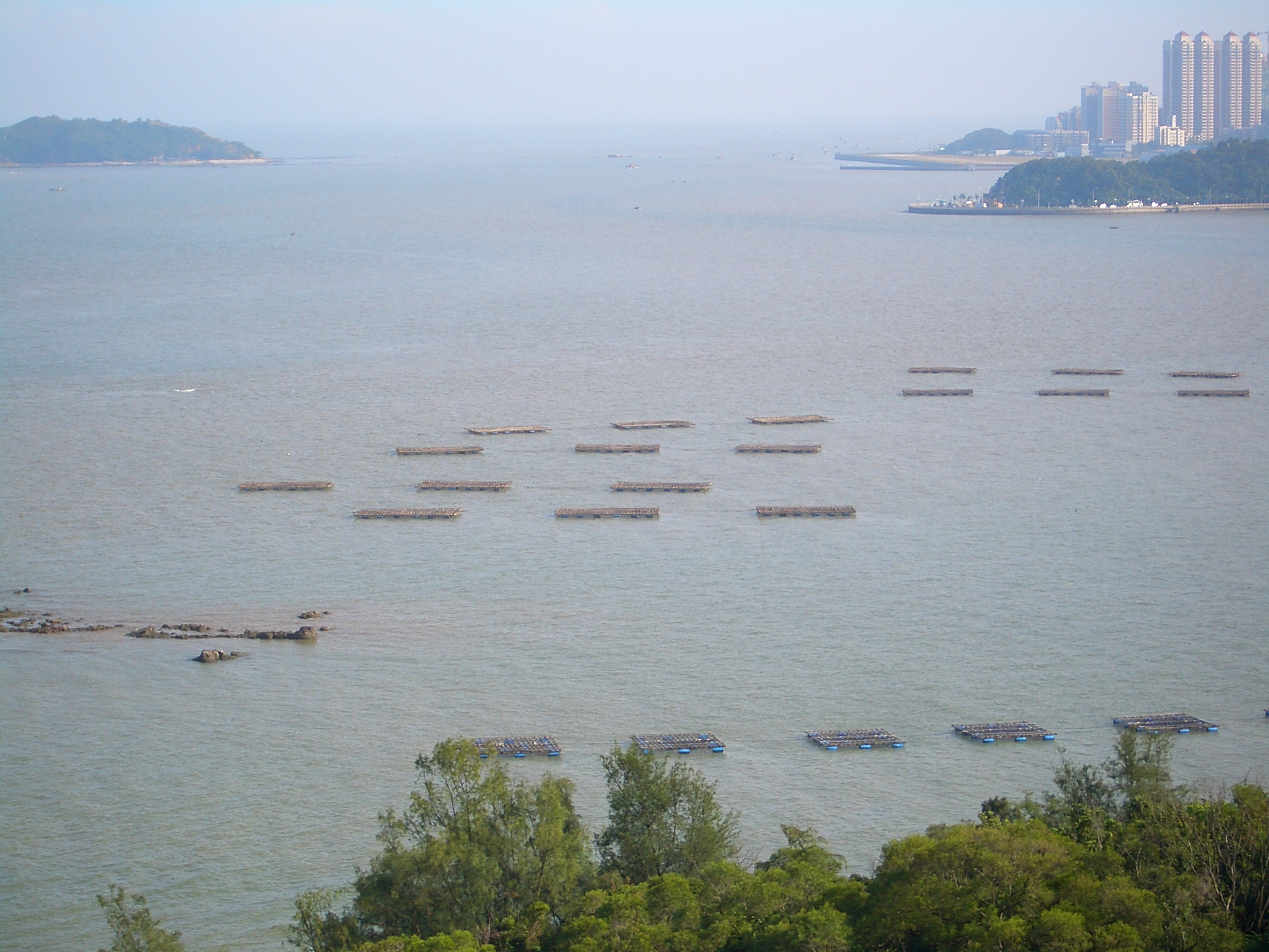 A view of Zhuhai and Hengzhou Island (left) from a hill on Yeli Island. The floating things are perhaps used for pearl farming (?)